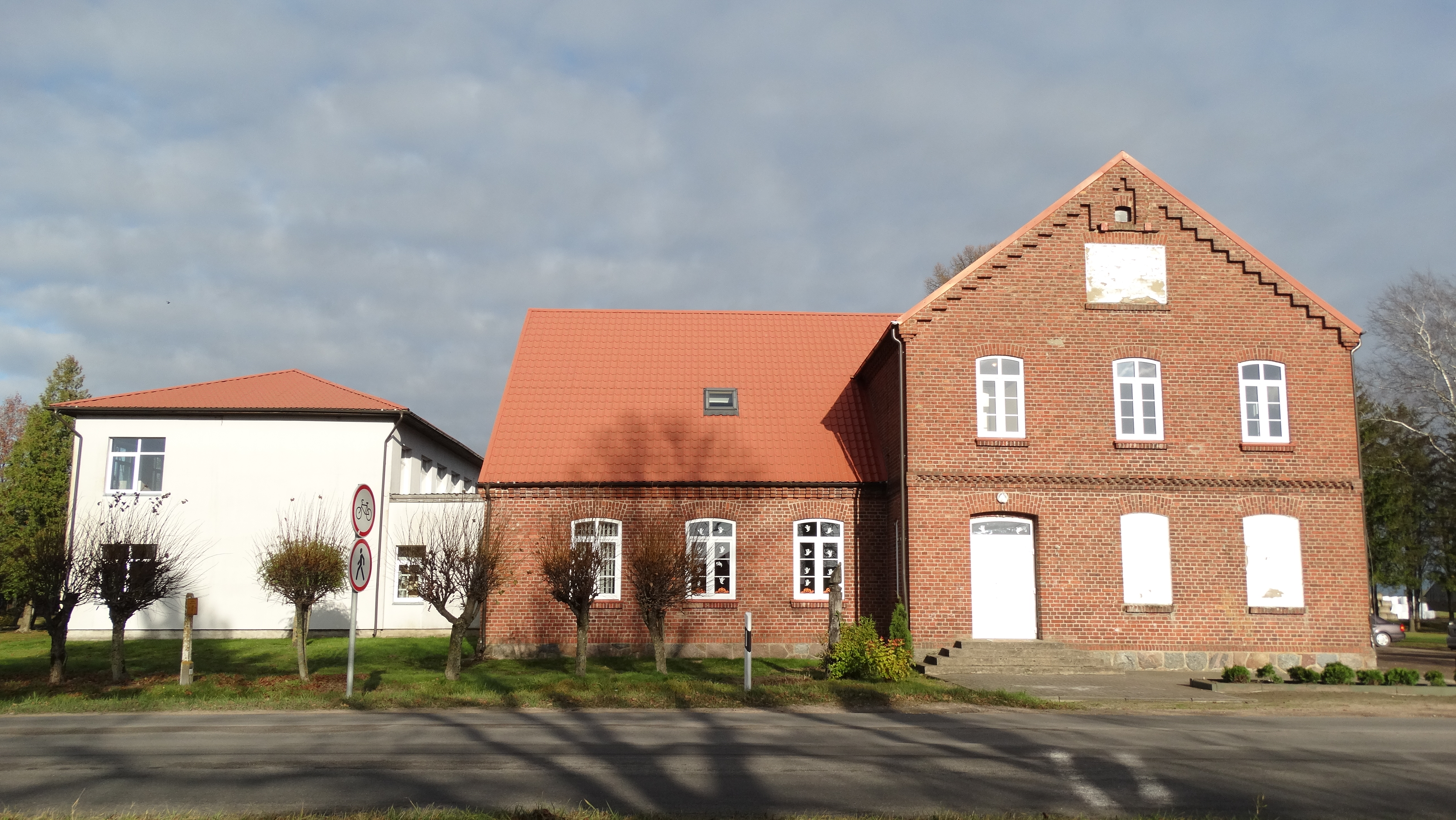 Stoniškiai Basic School in Rukai, Pagėgiai Municipality, Lithuania